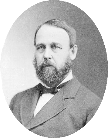 Type: Glass Plate #269 Page: 5 Number: 7 Volume: 2 Identifier: g269 Asaph Hall, Sr.